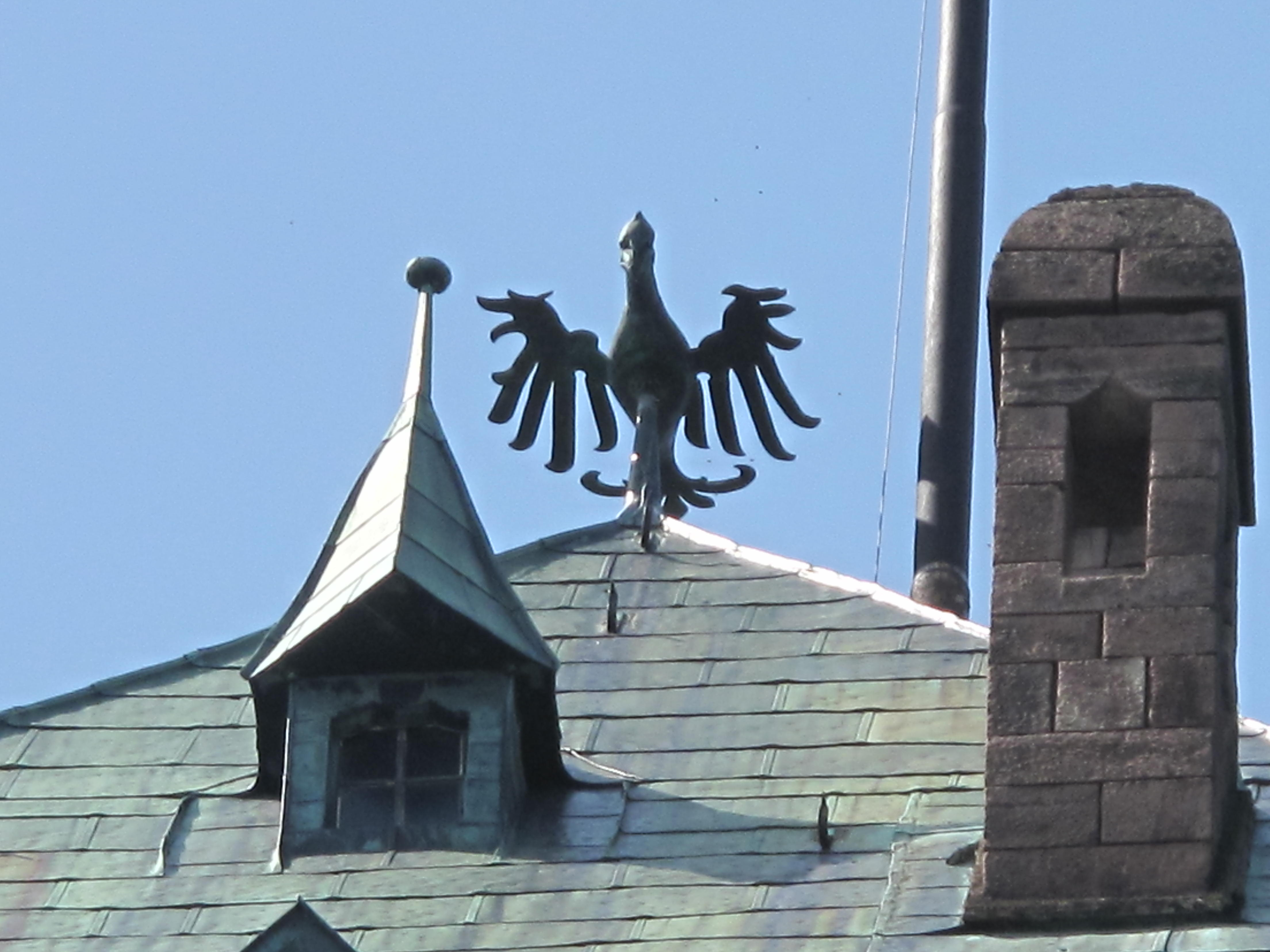 Eagle at the top of the keep of the castle of Haut-Koenigsbourg (Bas-Rhin, France). This eagle shew both the end of the works of reconstruction and the mark of the German emperor Wilhelm II on the place